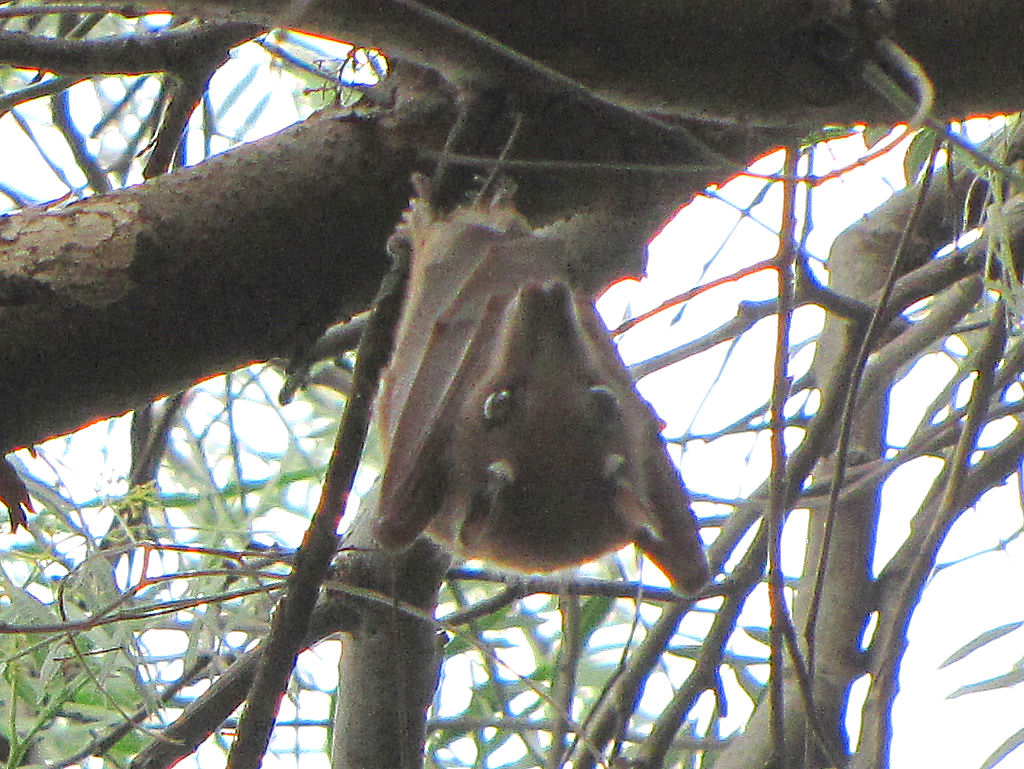 Wahlberg's Epauletted Fruit Bat (Epomophorus wahlbergi), Arusha, Tanzania